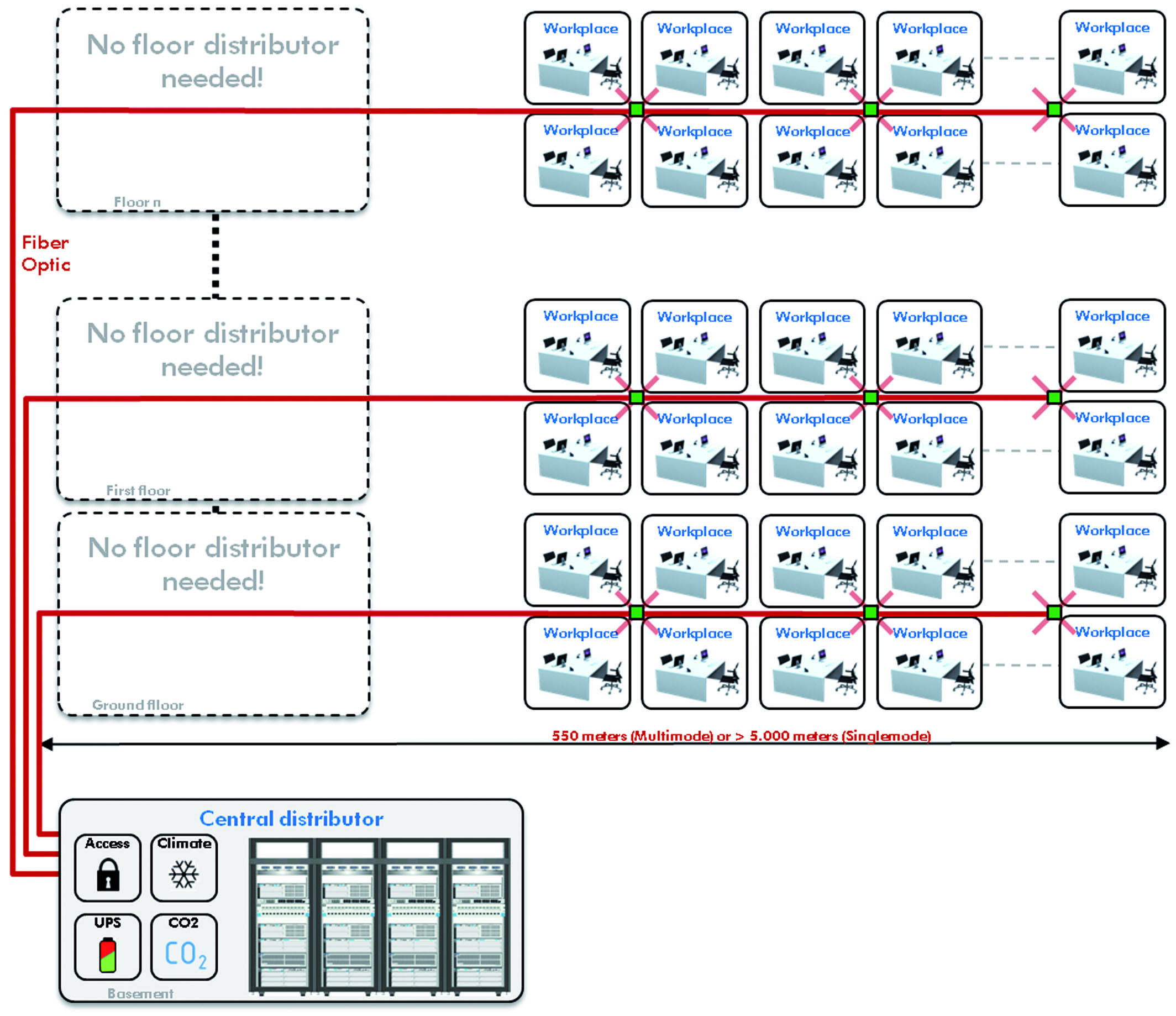 The structure of FTTO based networks